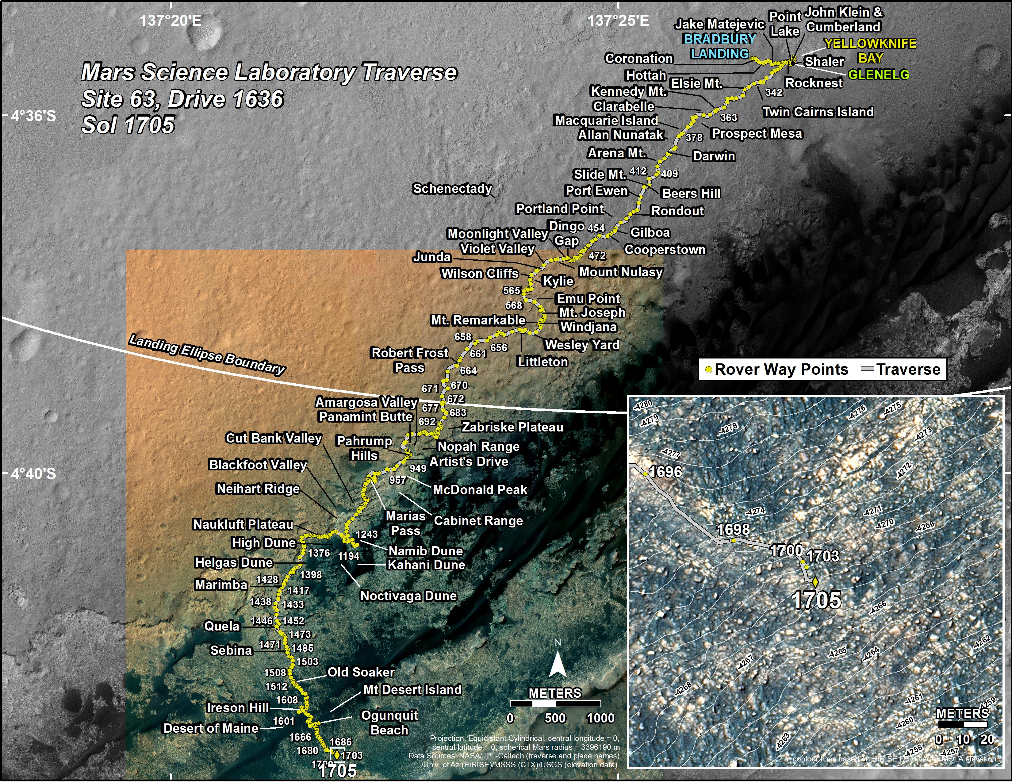 5-22-2017 Curiosity's Traverse Map Through Sol 1705 This map shows the route driven by NASA's Mars rover Curiosity through the 1705 Martian day, or sol, of the rover's mission on Mars (May 22, 2017). Numbering of the dots along the line indicate the sol number of each drive. North is up. The scale bar is 1 kilometer (~0.62 mile). From Sol 1703 to Sol 1705, Curiosity had driven a straight line distance of about 23.43 feet (7.14 meters), bringing the rover's total odometry for the mission to 10.25 miles (16.50 kilometers). The base image from the map is from the High Resolution Imaging Science Experiment Camera (HiRISE) in NASA's Mars Reconnaissance Orbiter.